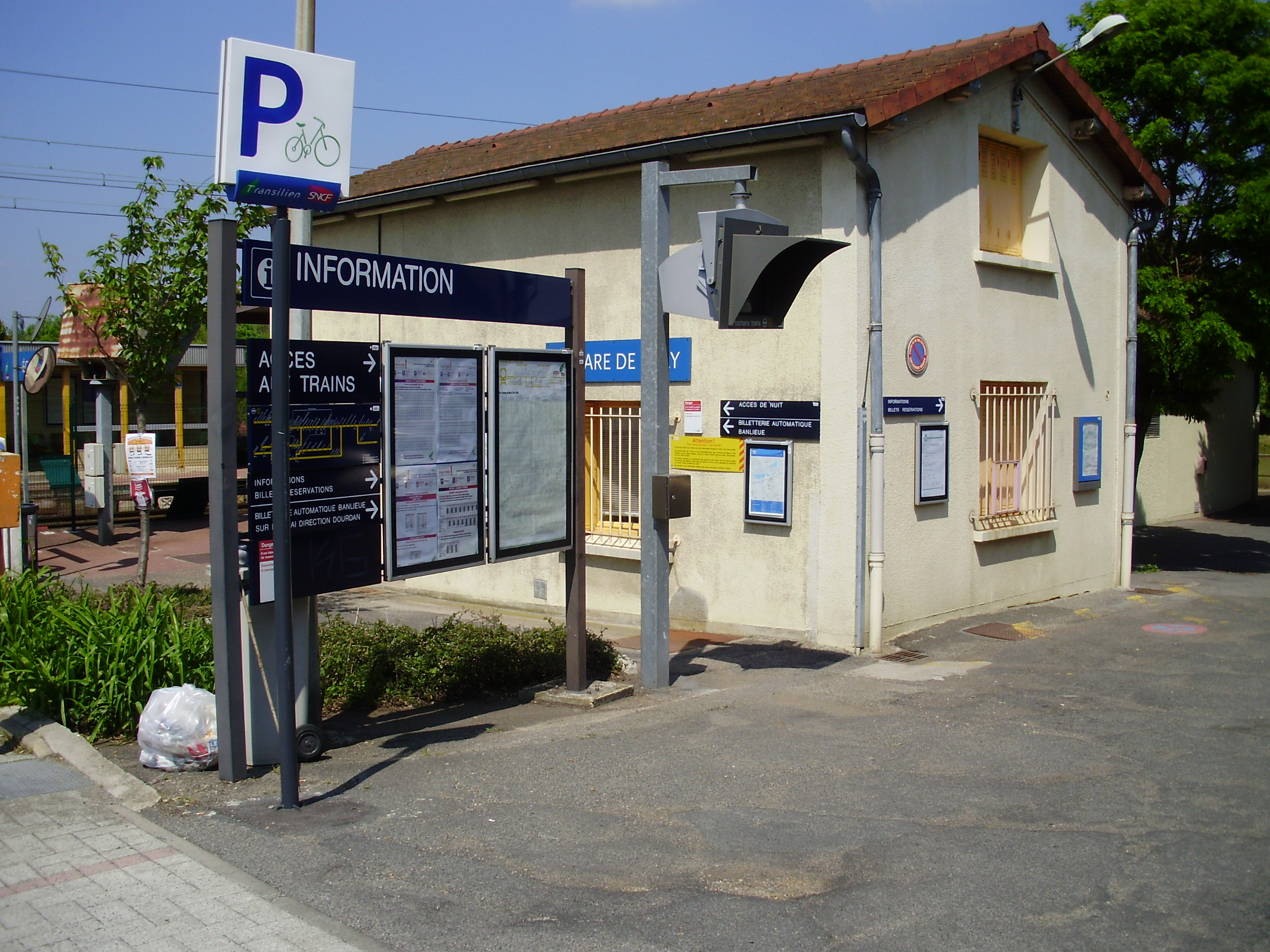 Égly station, Essonne, France